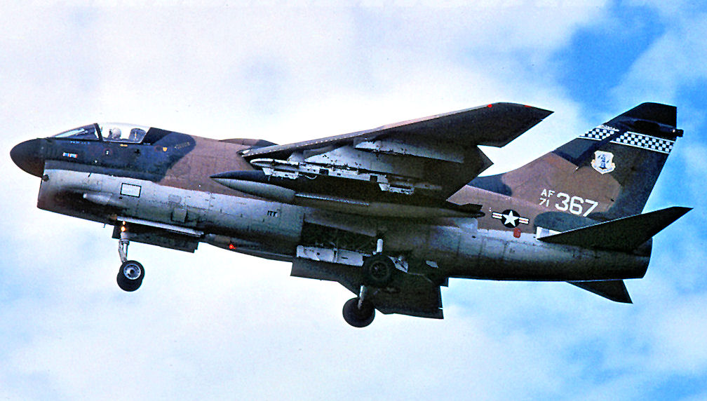 112th Fighter Squadron - Ling-Temco-Vought A-7D-11-CV Corsair II 71-0367 Aircraft History 1972: Aircraft delivered to 354th Tactical Fighter Wing, Myrtle Beach AFB, SC (C/N D-278) Transferred to 166th Tactical Fighter Squadron, Ohio Air National Guard, 1976 Transferred to 162d Tactical Fighter Squadron, Ohio Air National Guard, 1984 Written off due to crash on Jefferson Proving Grounds, OH Jul 10, 1985 following engine failure. Pilot ejected.